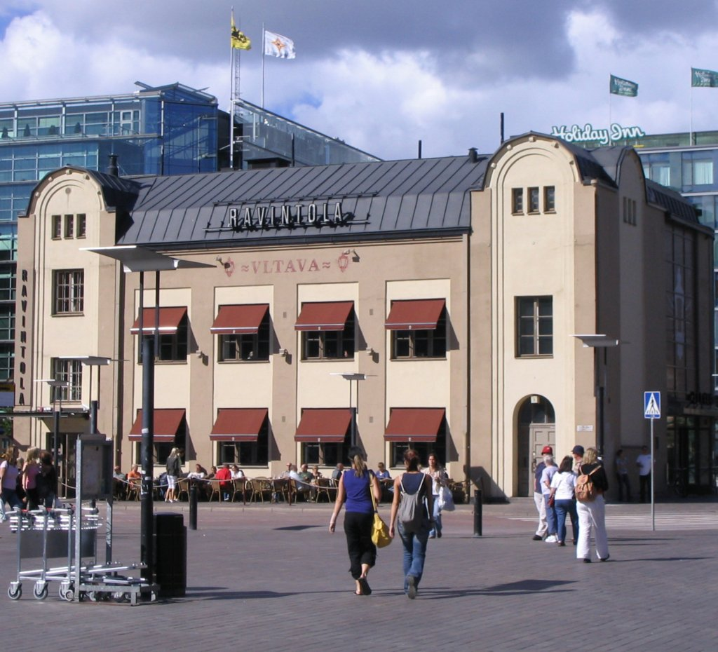 Czech restaurant by Asema-aukio square in Helsinki, Finland.